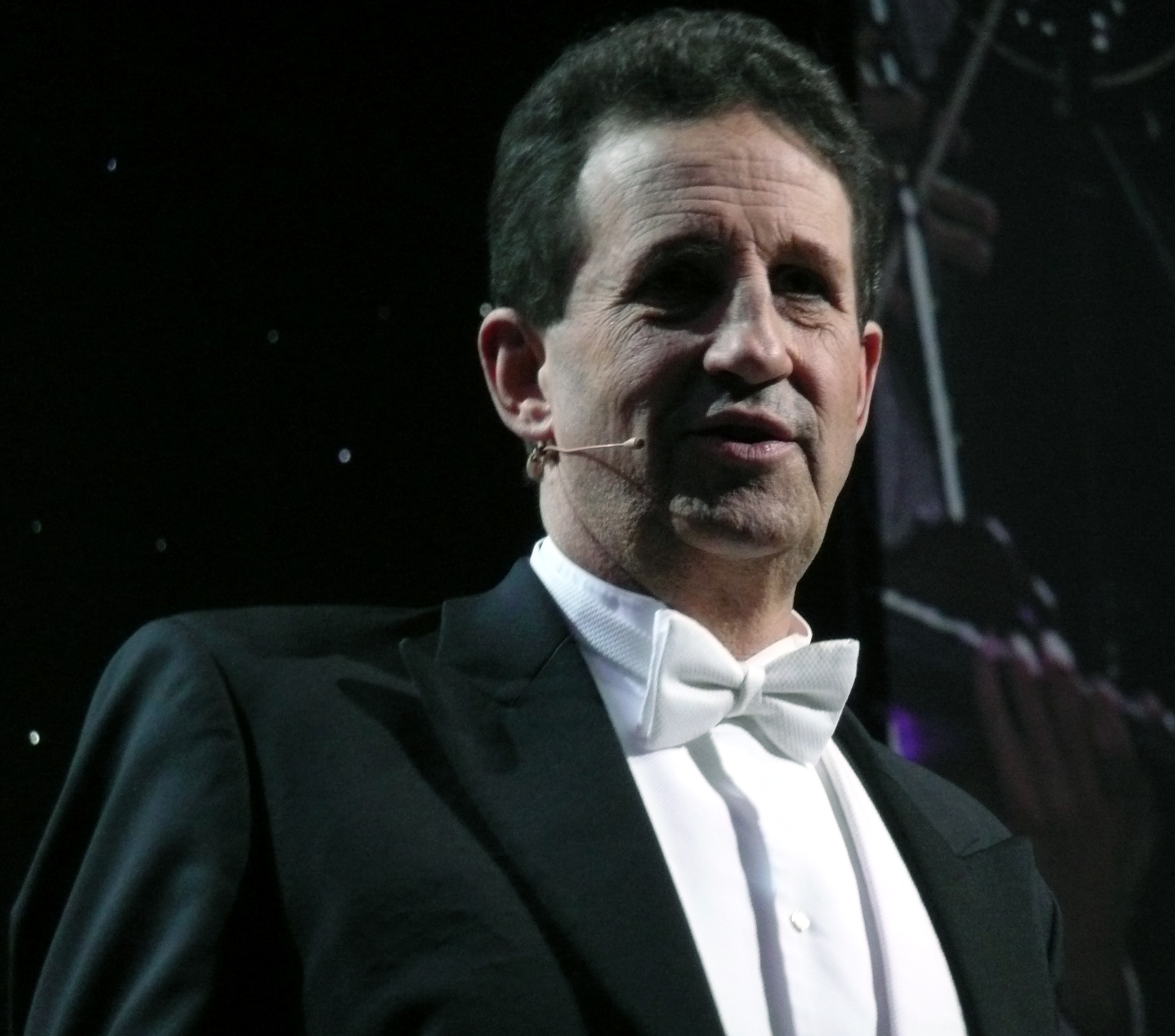 Tenor Gary Bennet ("Platinum Tenors") on January 2nd, 2010 in Cologne, Germany